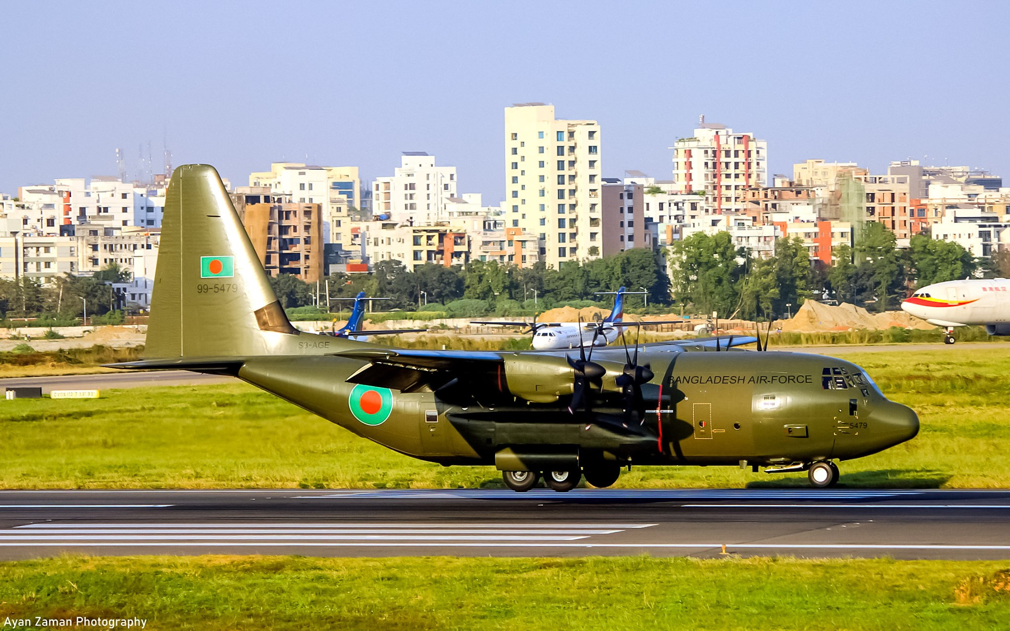 Lockheed C-130J 99-5479, Bangladesh Air Force.